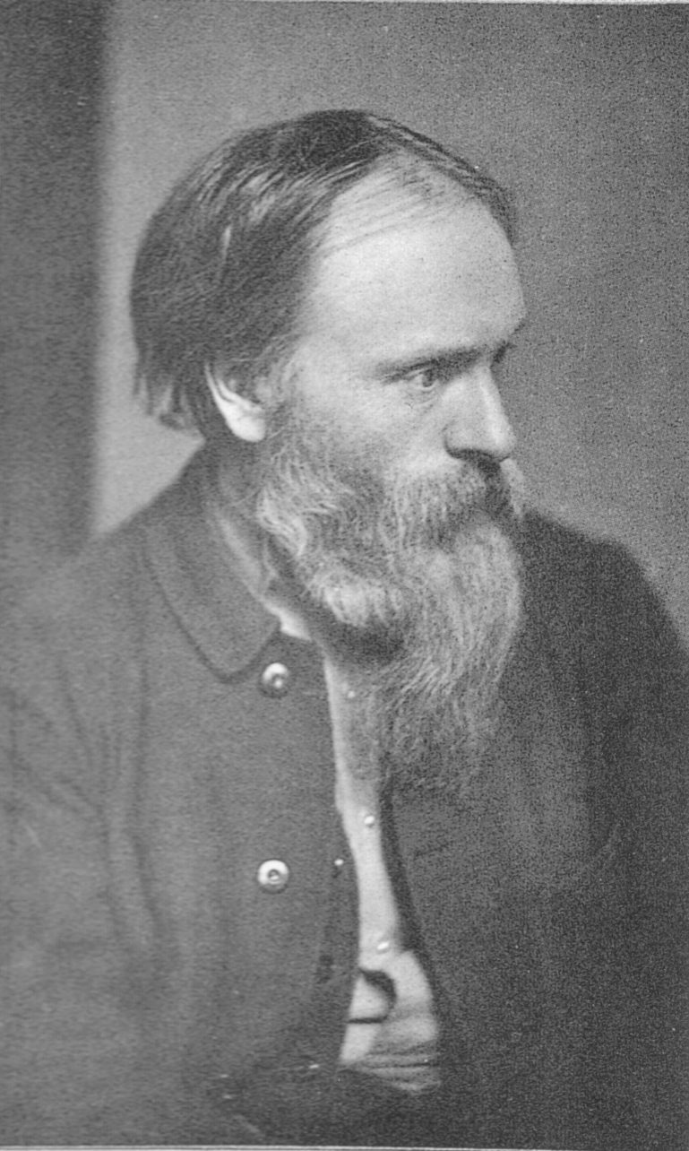 Platinum print photographic portrait of Edward Burne-Jones, c. 1882